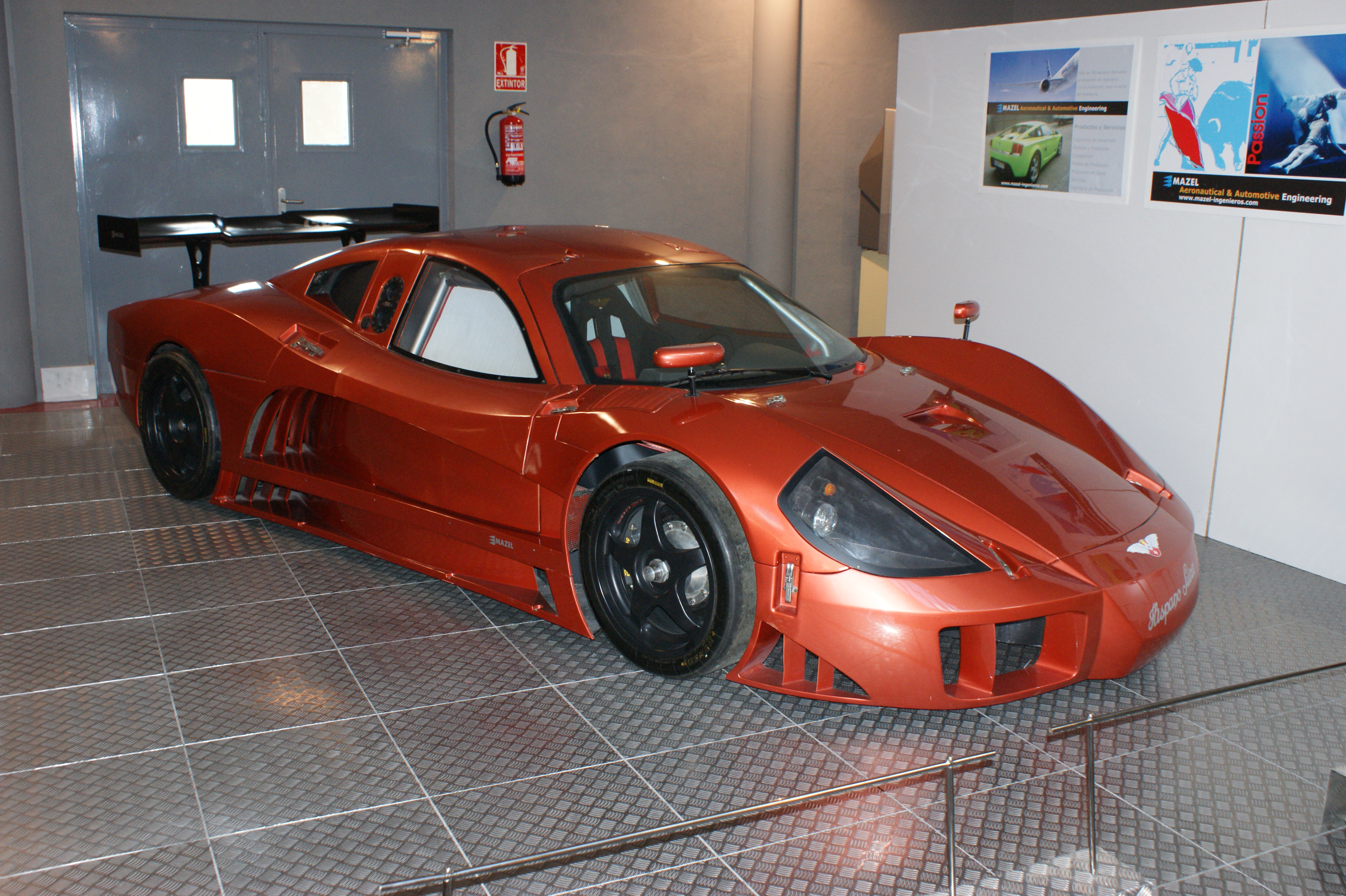 2002 Hispano-Suiza HS-21 GTS, 7 litre V8, at the Salamanca Motor Museum, 04/08.